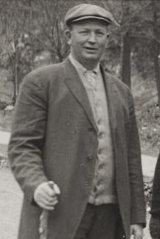 File name: 06_06_000043 Title: Cy Young, Jake Stahl, Bill Carrigan and Michael T. McGreevey, Boston Red Sox Spring Training Creator/Contributor: Arlington Studio (photographer) Created/Published: Date created: 1912 Physical description: 1 photographic print : gelatin silver Description: Taken during Spring Training hike in Hot Springs Arkansas in March of 1912. Cy Young had retired after the 1911 season. Genre: Photographic prints; Portrait photographs; Gelatin silver prints Subjects: Baseball players; Boston Red Sox (Baseball team); Young, Cy, 1867-1955; McGreevey, Michael T. Notes: Photo caption: Cy Young, Stahl, Carrigan, "Nuf Ced."; McGreevey no. 3 Location: Boston Public Library, Print Department Rights: No known restrictions